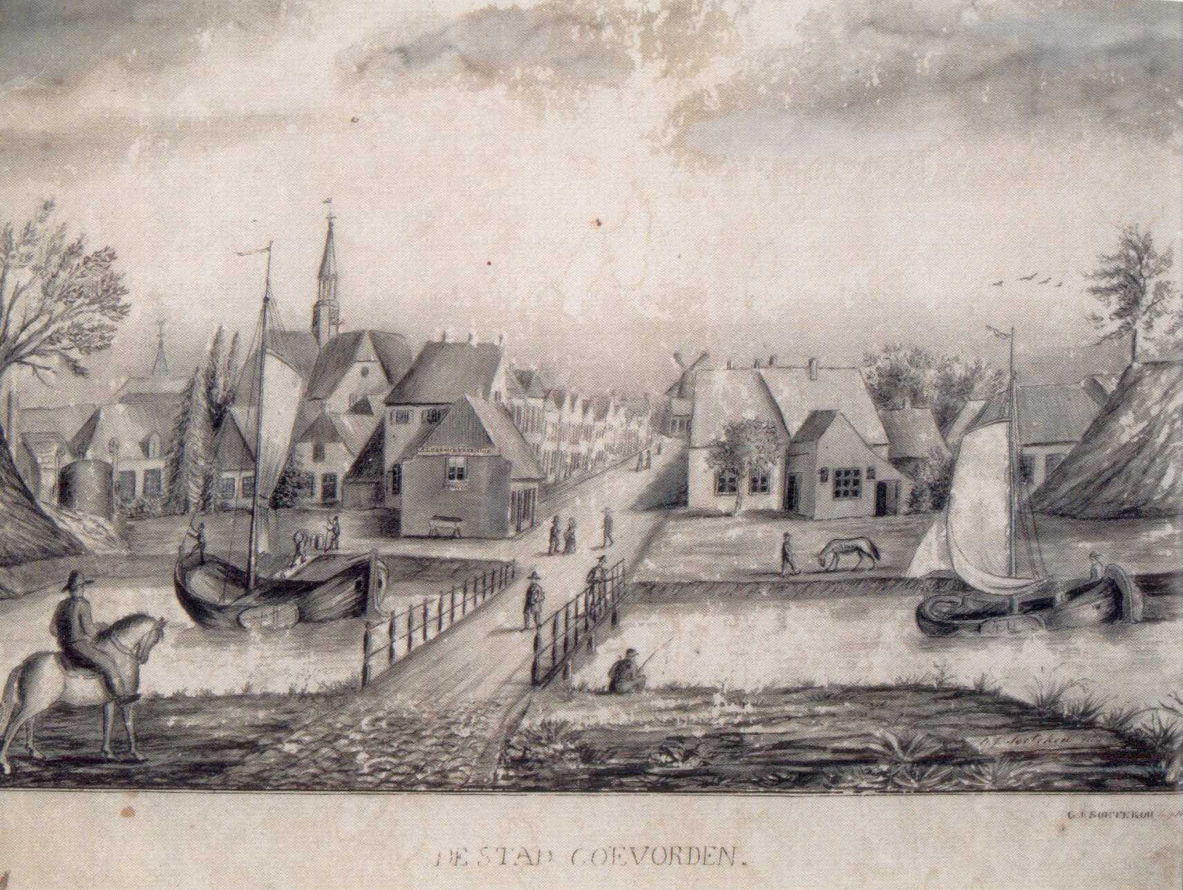 View on the Dutch city of Coevorden in 1874